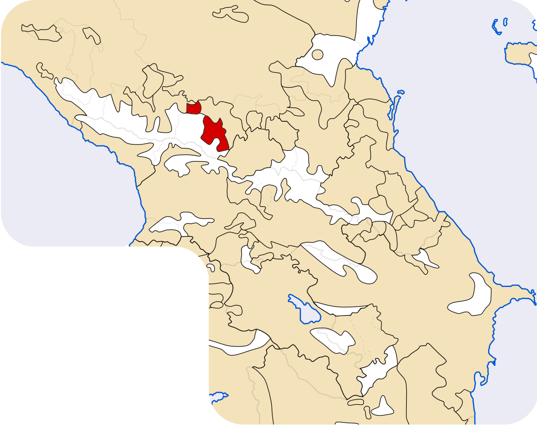 Location map of the Balkar people.